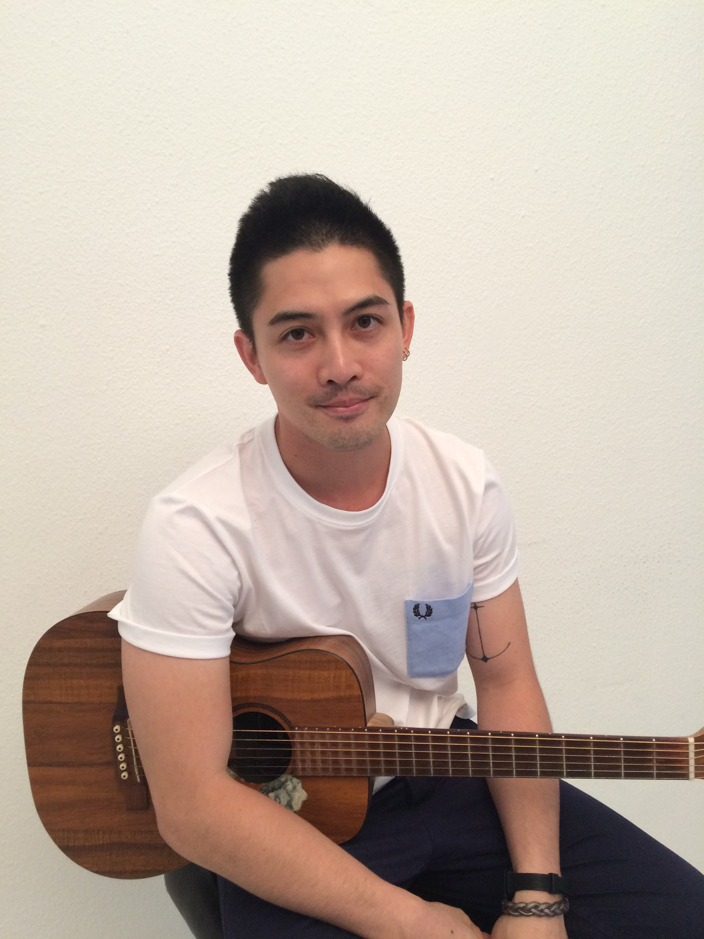 Max Jenmana at VERY